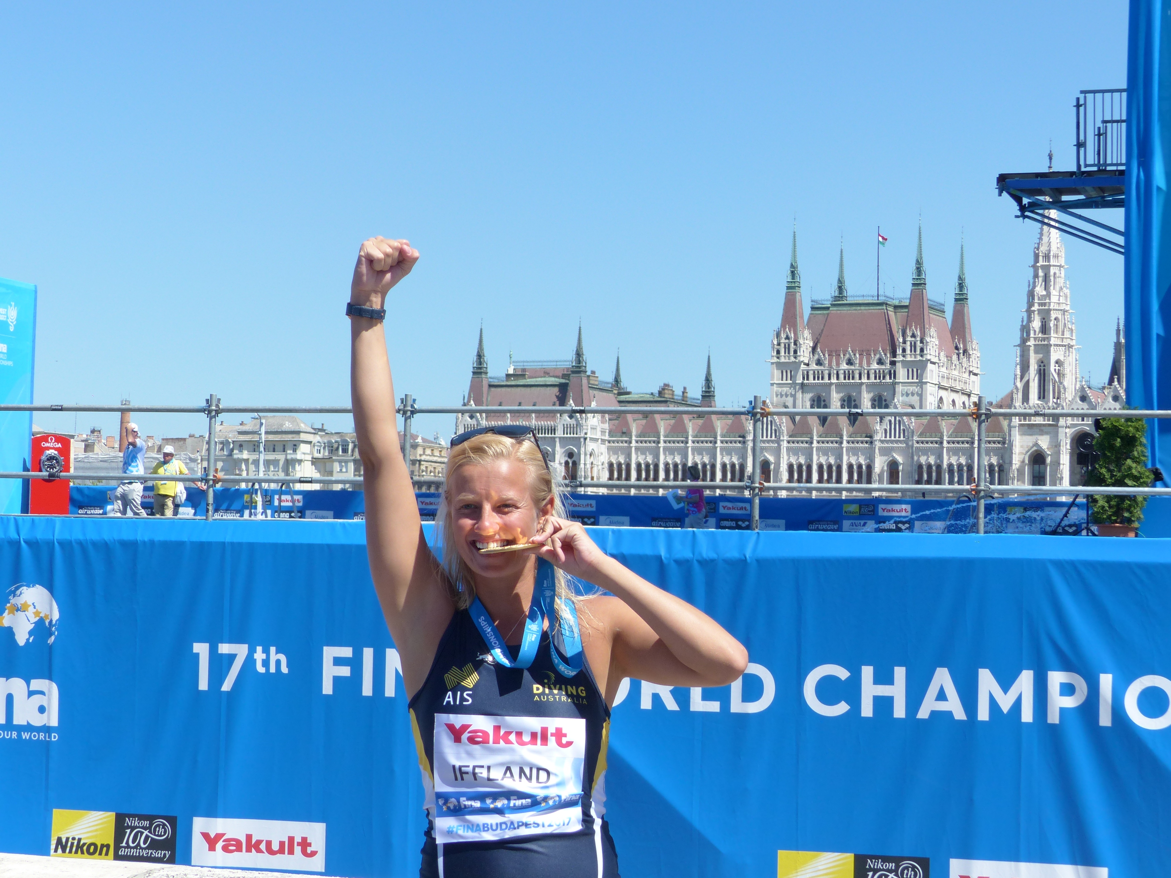 Taken on Saturday, 29th of July, 2017. 2017 World Aquatic Championships, Budapest, Hungary, Central Europe. Women’s 20m High Dive Final Resultsː Rhiannan Iffland, AUS, 320.70, Adriana Jimenez, MEX, 308.90, Yana Nestsiarava, BLR, 303.95, Tara Tira, USA, 299.50, Anna Bader, GER, 283.40